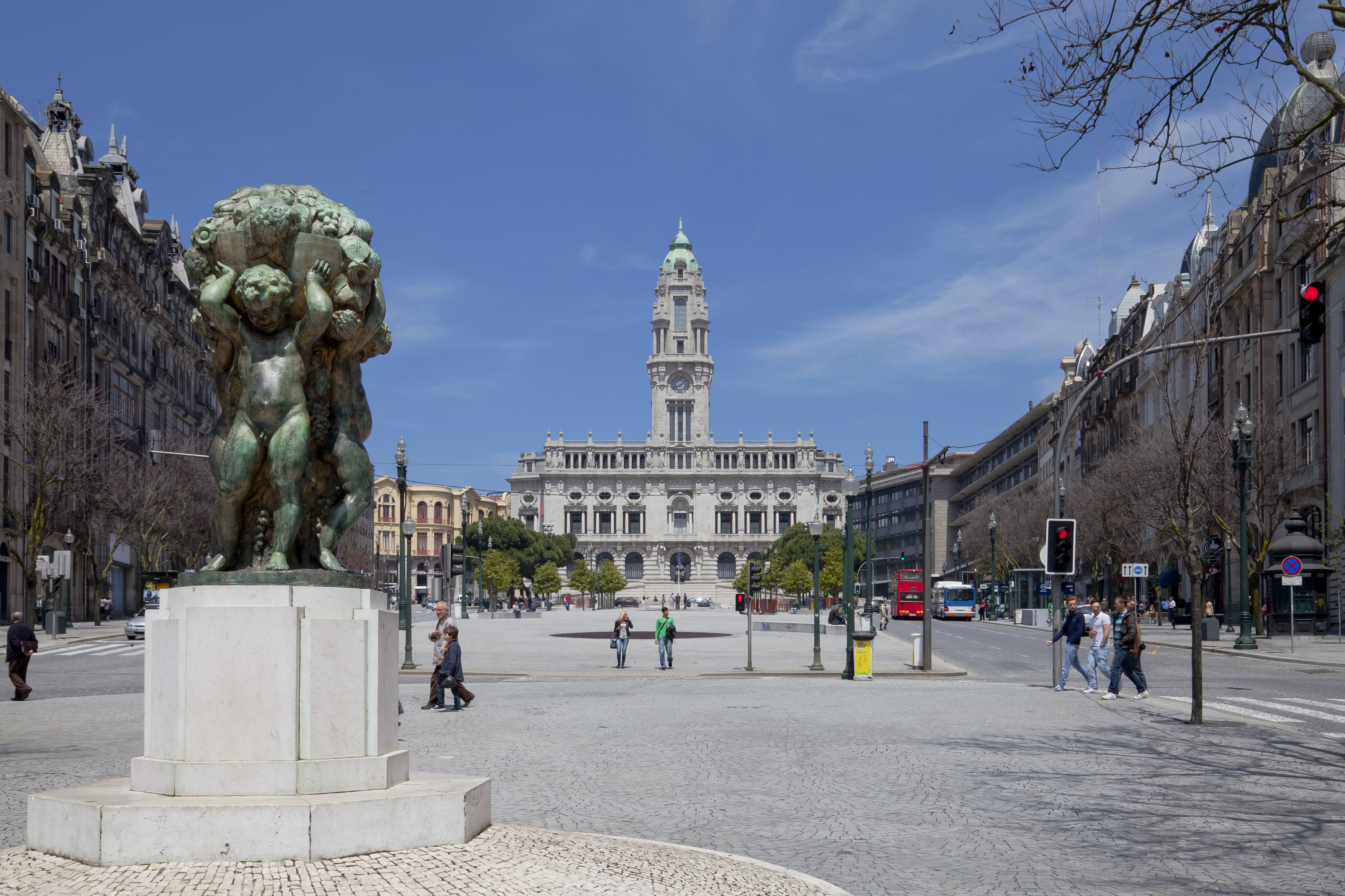 Porto city Hall, Portugal